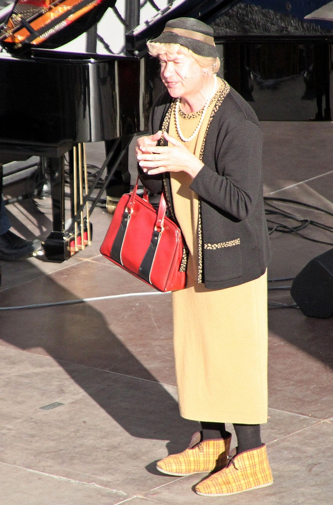 This image shows the german actor and cabaret performer Tom Pauls masquerade as Ilse Bähnert during the benefit concert "Pirna taucht auf" in Pirna to raise money for the families affected by the flood of the Elbe river in june 2013.